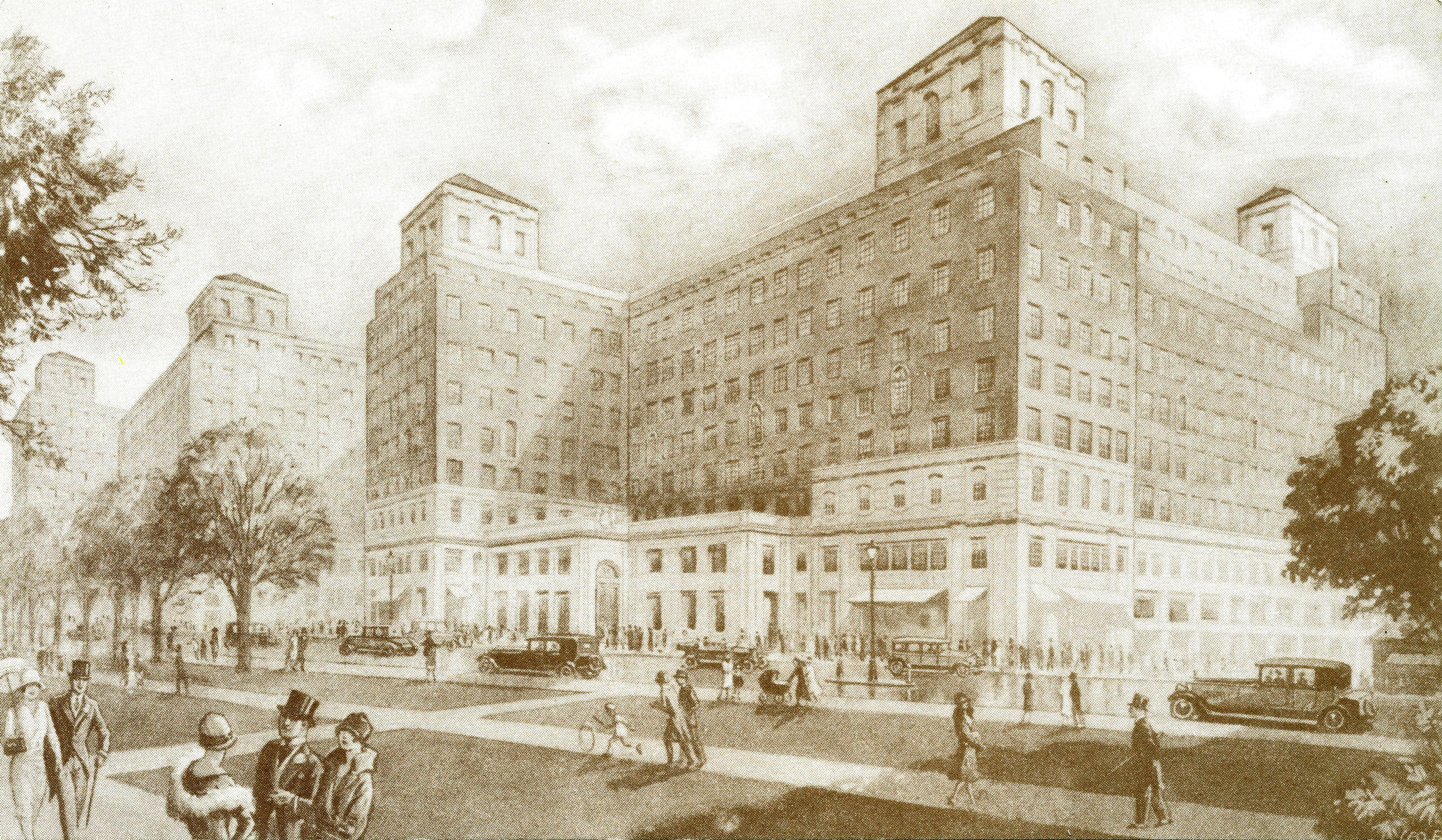 Drawing or enhanced photograph of the Grosvenor House Hotel, Park Lane, London, 1920s. The hotel was built on the site of the original Grosvenor House.